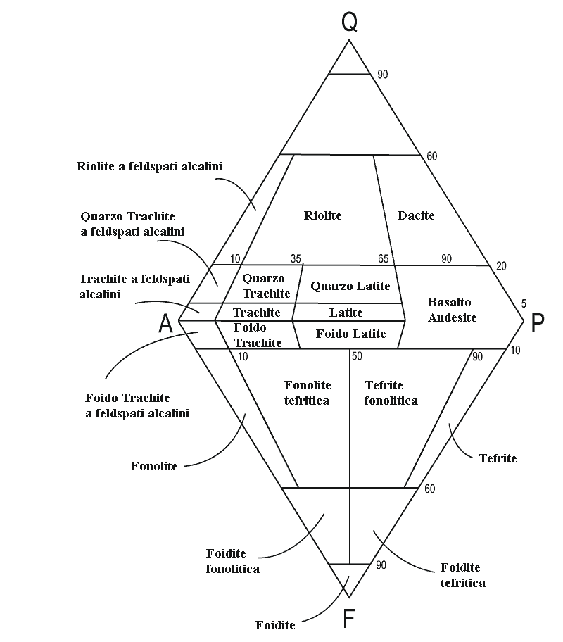 Italian QAPF diagram for volcanic rocks